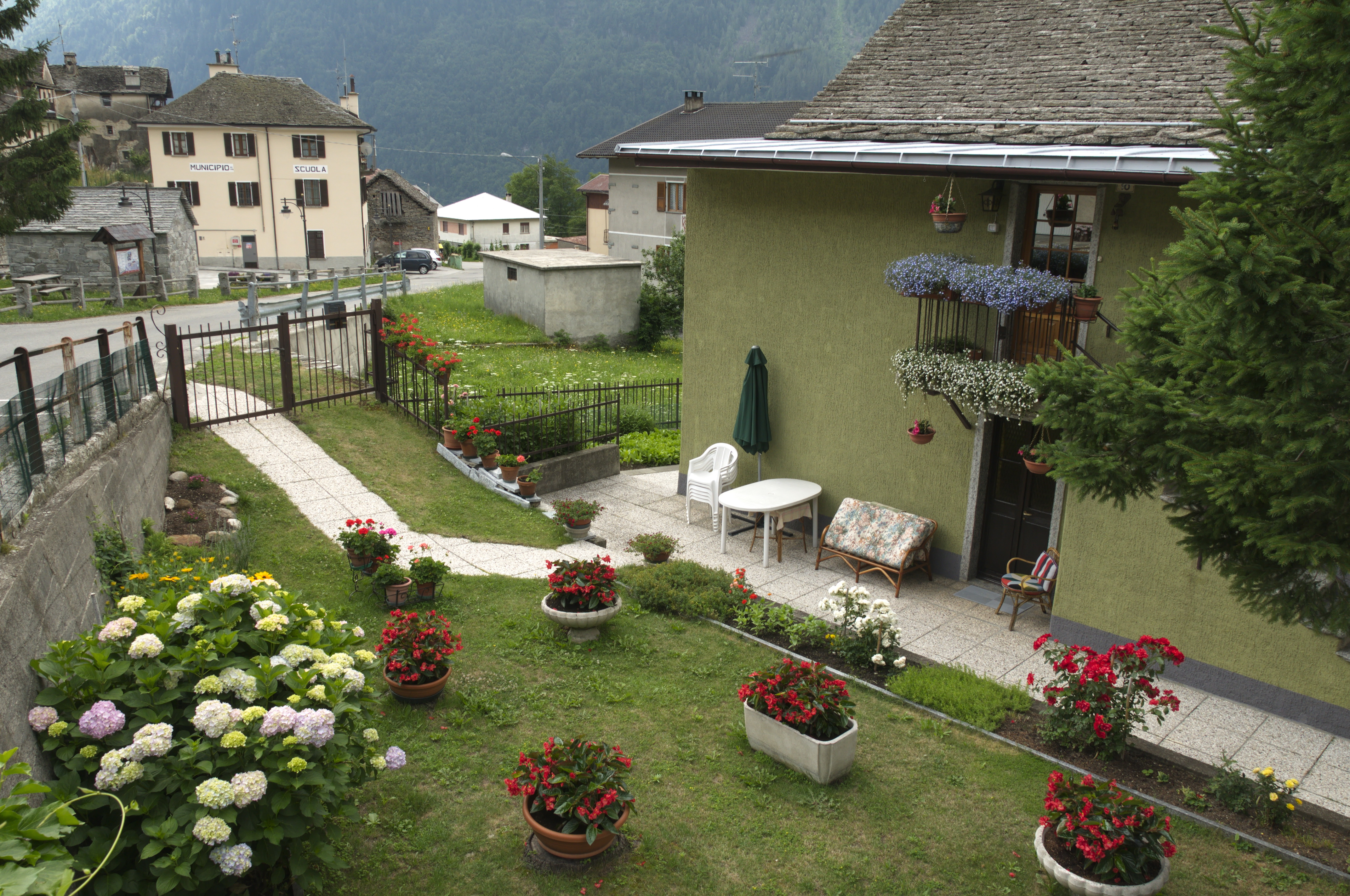 Trasquera, Natural Park Hig Antrona Valley This is a photo of a monument which is part of cultural heritage of Italy.